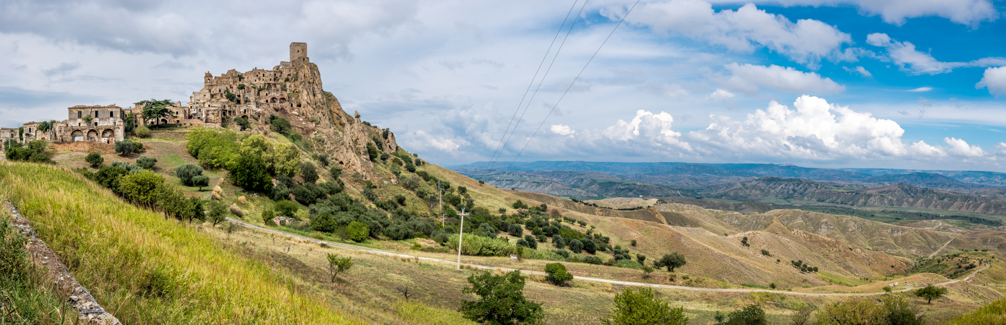 View of Craco, Basilicata